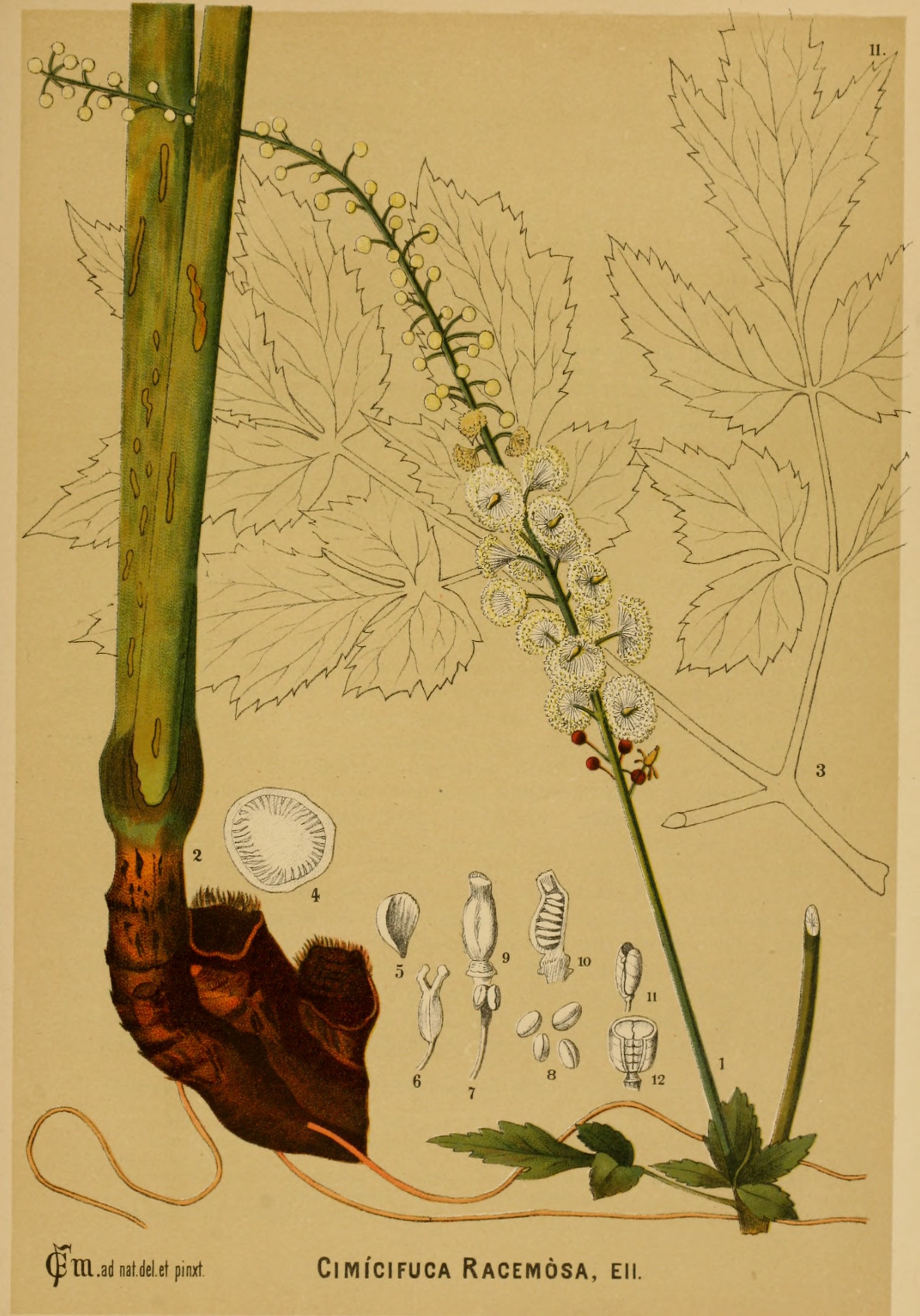 Plate 11, Cimicifuca racemosa (Actaea racemosa) From American Medical Plants 1887.